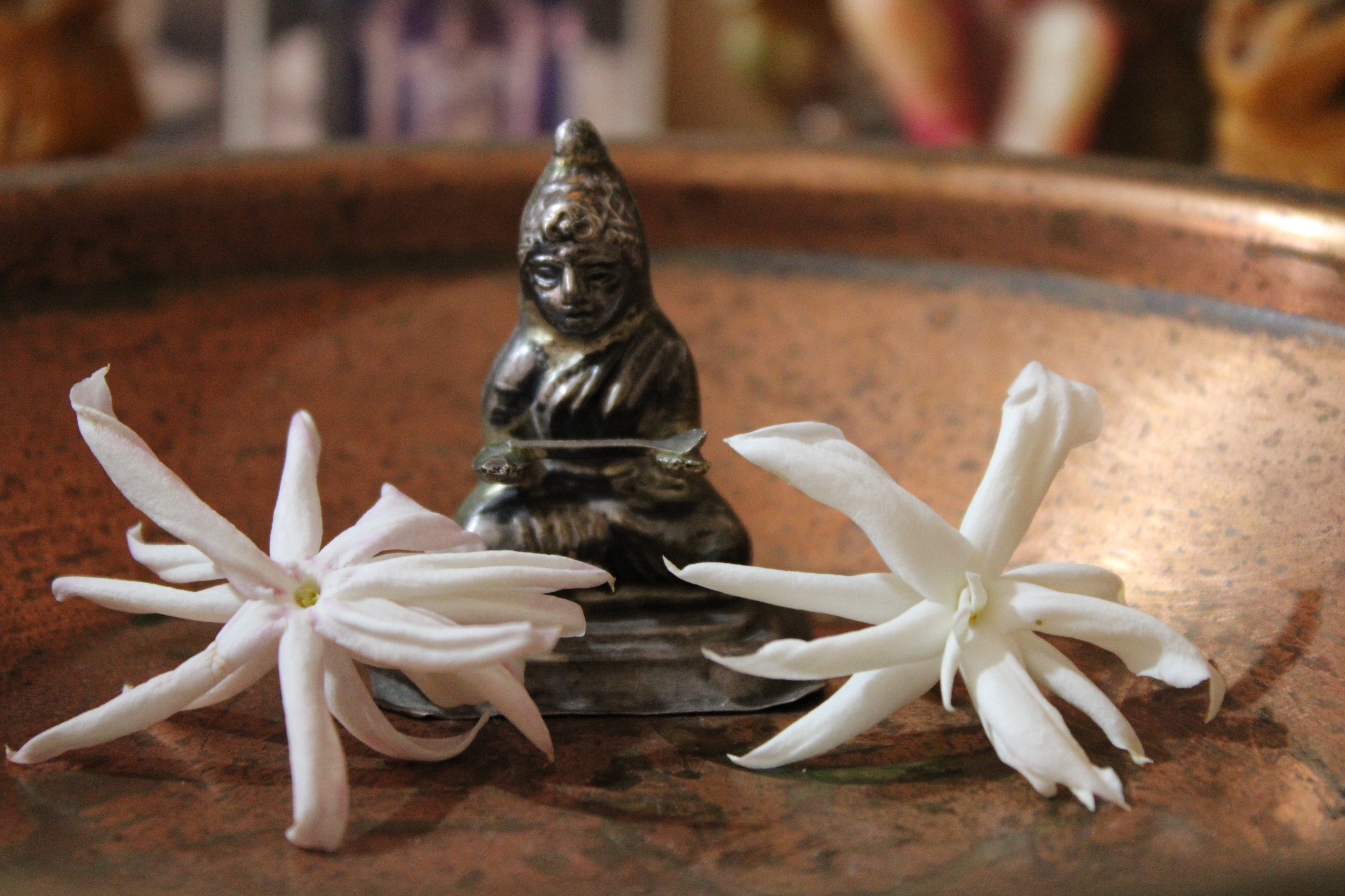 Annapurna idol worshiped in households of Maharashtra.